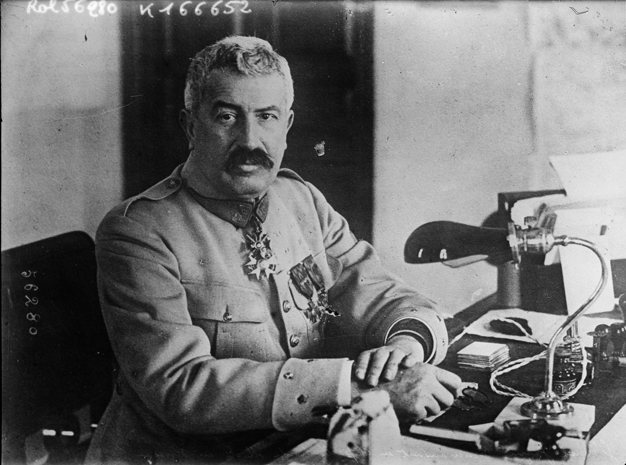 General Maurice Janin